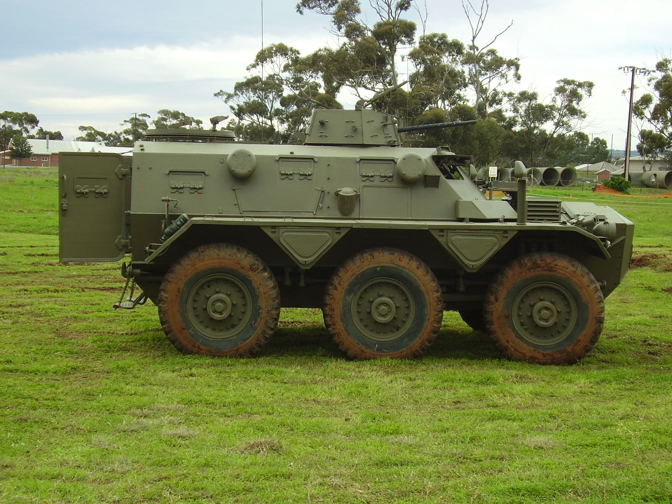 An Alvis Saracen about to be driven a the Military vehicles museum, edinburgh airbase, Adelaide, South Australia